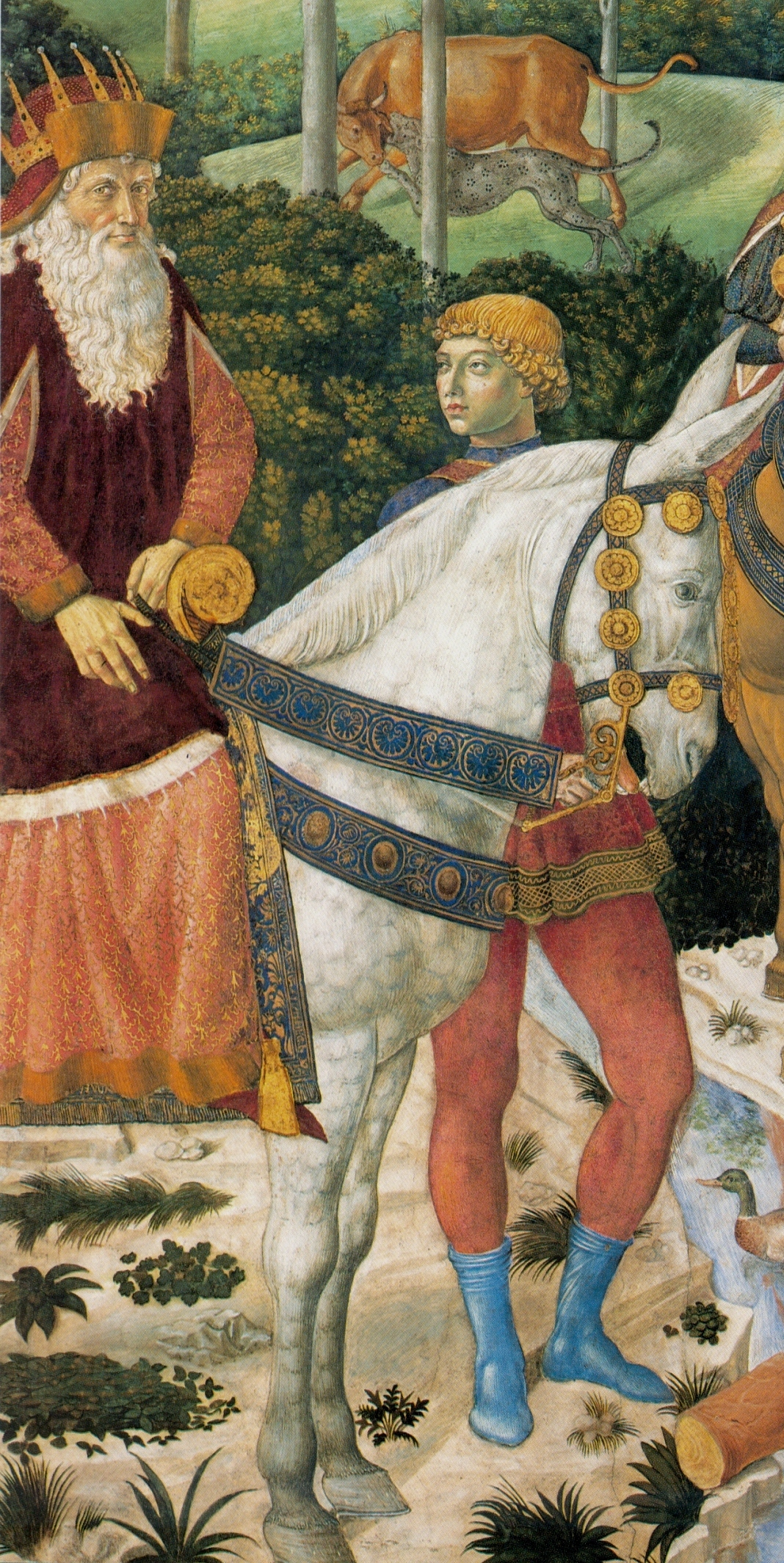 Joseph, Patriarch of Constantinople. Detail from the fresco by Benozzo Gozzoli, in the "Cappella dei Magi", at Palazzo Medici Riccardi in Florence, Italy.